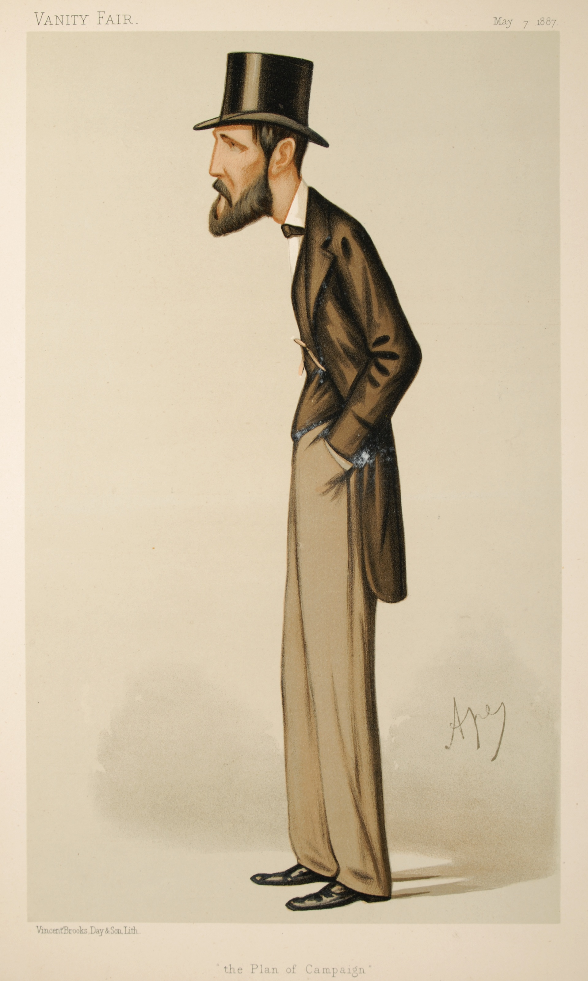 Statesmen No.520: Caricature of Mr John Dillon MP. Caption reads: "the Plan of Campaign"